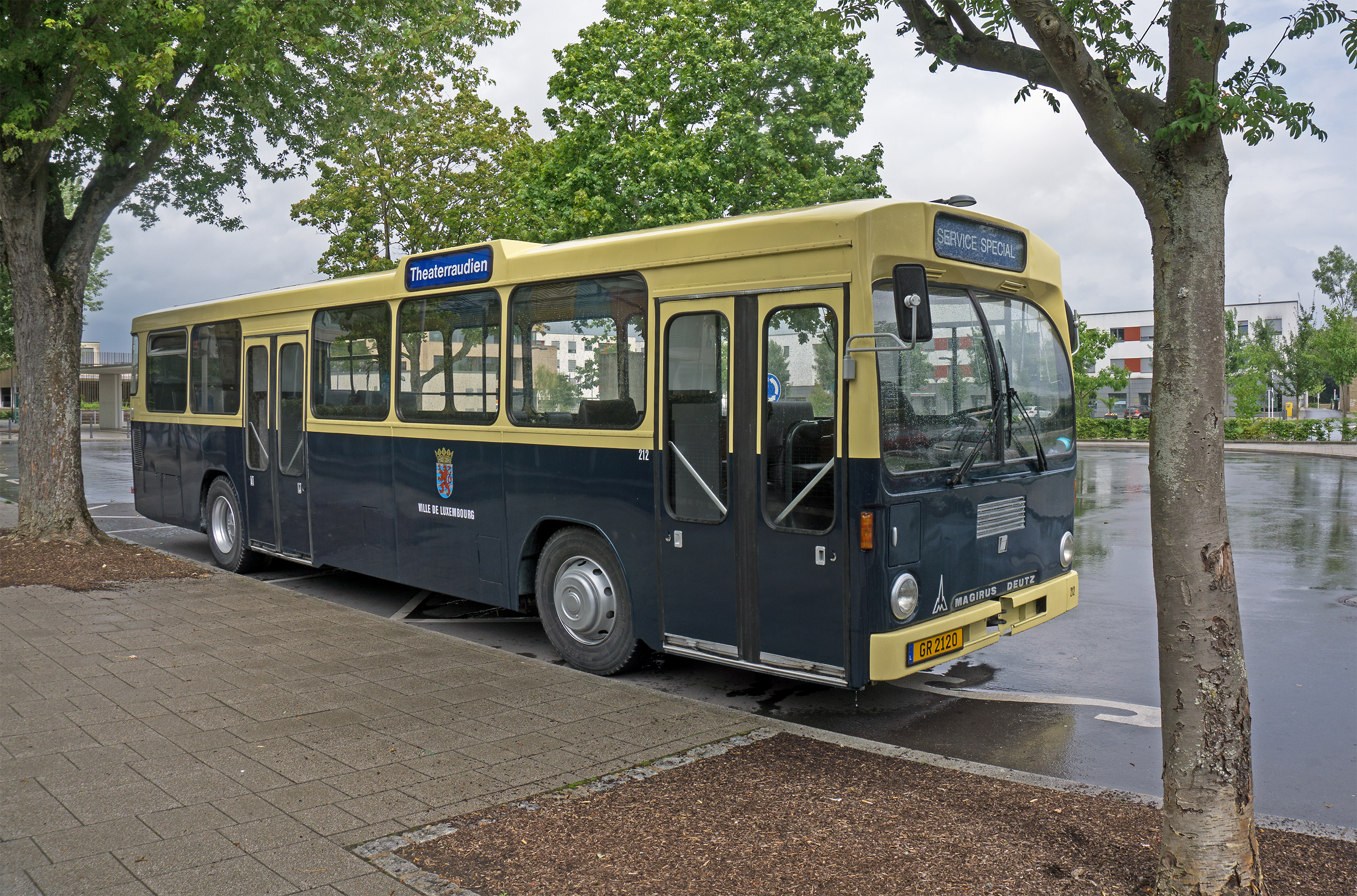 The restored Magirus-Deutz 260SH110 bus Nr. 212 built in 1979 in Mondorf-les-Bains